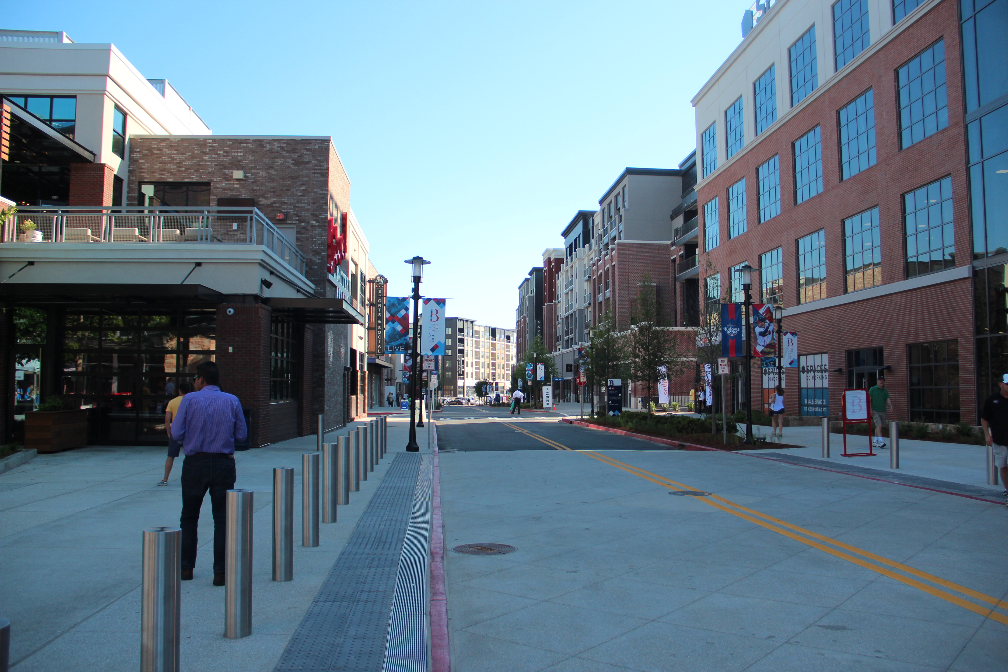 SunTrust Park Battery development